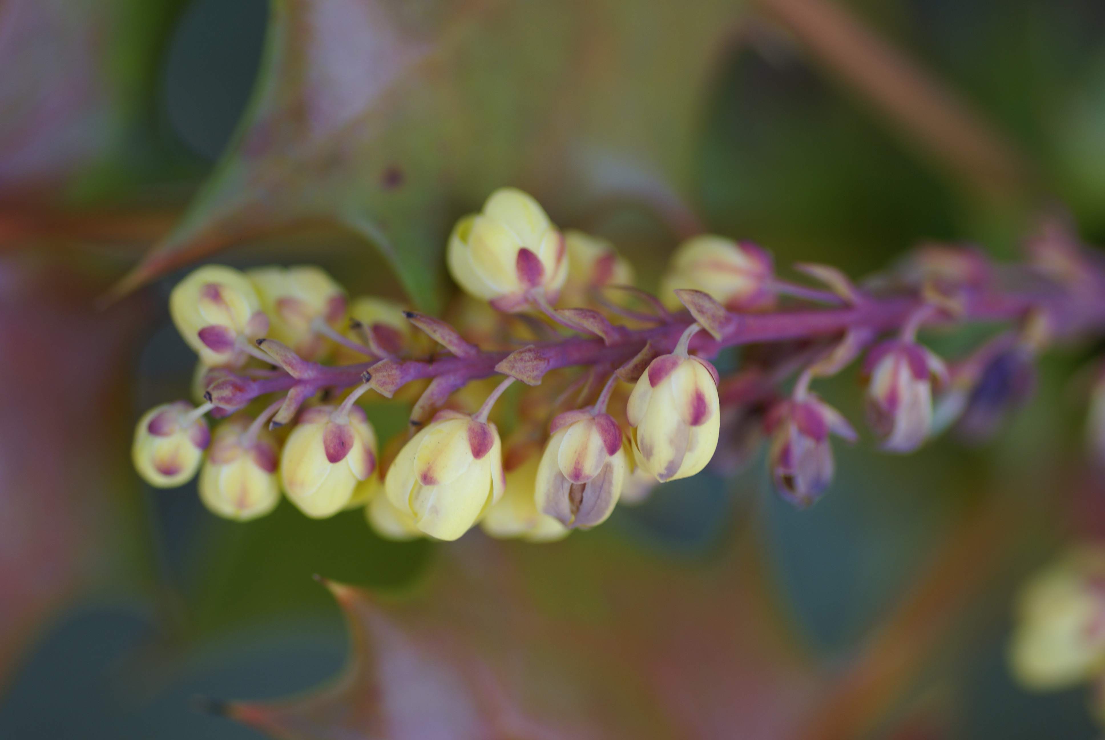 Plant species Mahonia japonica in Jindai Botanical Garden in Tokyo